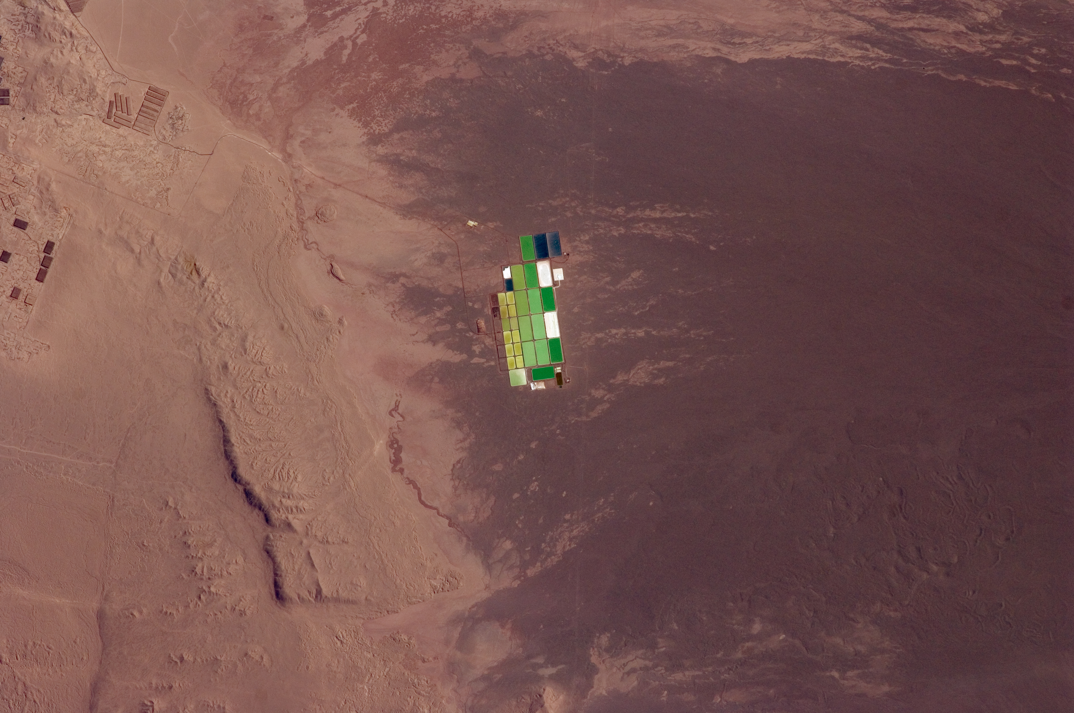 Brightly coloured solar evaporation (salt) ponds in a desert landscape give this astronaut photo an unreal quality. The ponds sit near the foot of a long alluvial fan in the Pampa del Tamarugal, the great hyper-arid inner valley of Chile’s Atacama Desert. The alluvial fan sediments are dark brown, and they contrast sharply with tan sediments of the Pampa del Tamarugal. Nitrates and many other minerals are mined in this region. A few extraction pits and ore dumps are visible at upper left. Iodine is one of the products from mining; it is first extracted by heap leaching. Waste liquids from the iodine plants are dried in the tan and brightly coloured evaporation ponds to crystallize nitrate salts for collection. Coordinates: -20.946162, -69.514961 This image was aquired with a Nikon D2X digital camera fitted with a 400 mm lens, and is provided by the ISS Crew Earth Observations experiment and Image Science & Analysis Laboratory, Johnson Space Centre.